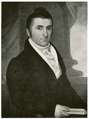 Joseph John Daniel, Representative in the North Carolina House of Commons in 1836.